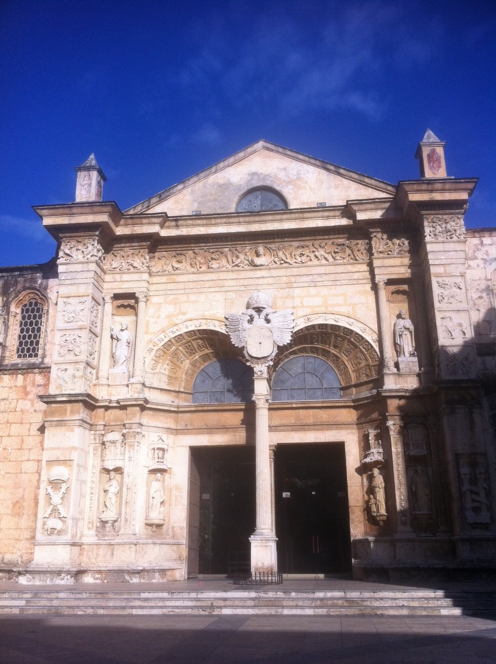 West facade of the Santo Domingo Cathedral (16th century)